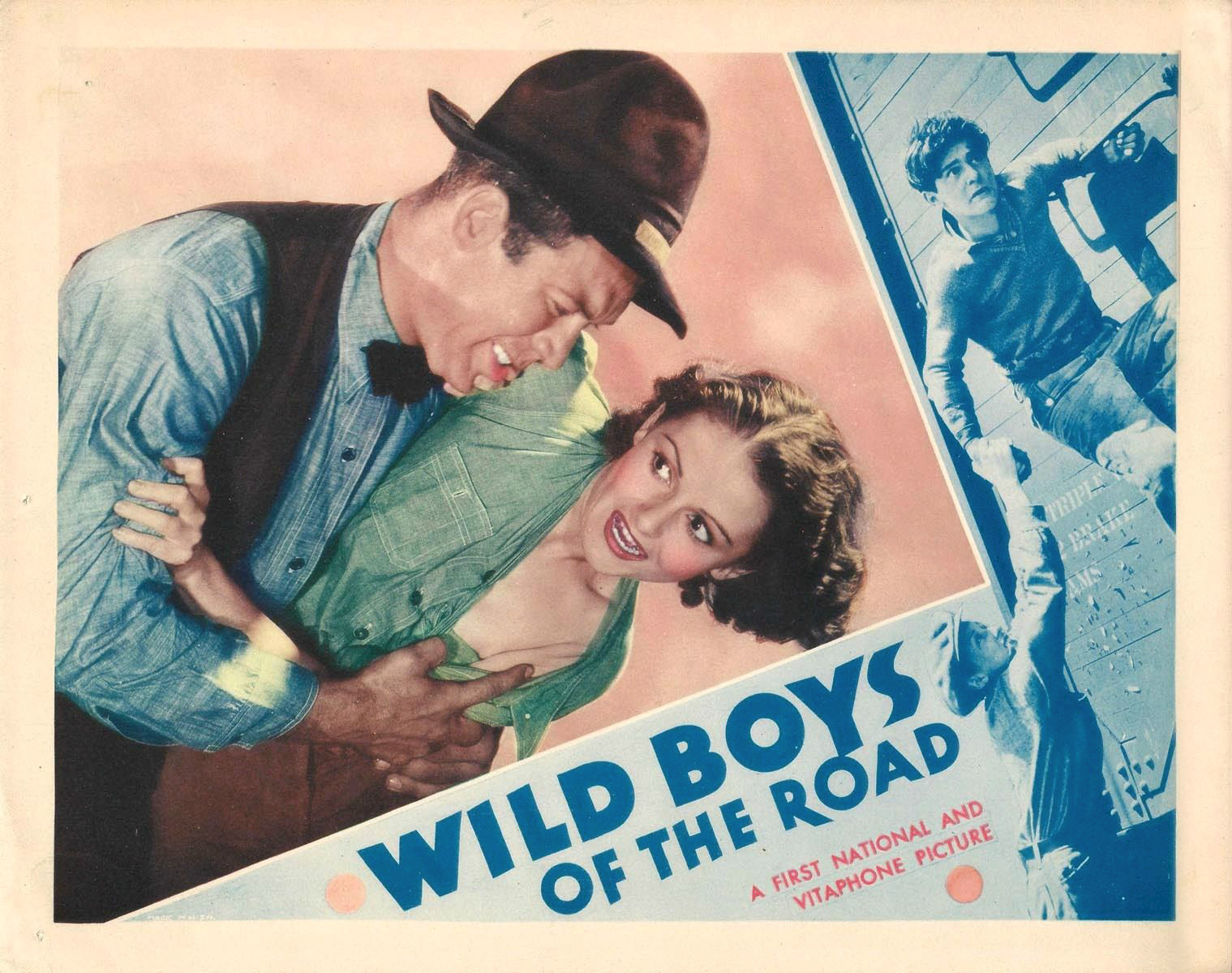 Lobby card for the 1933 film Wild Boys of the Road. The item has no copyright markings on it as can be seen in the links above.